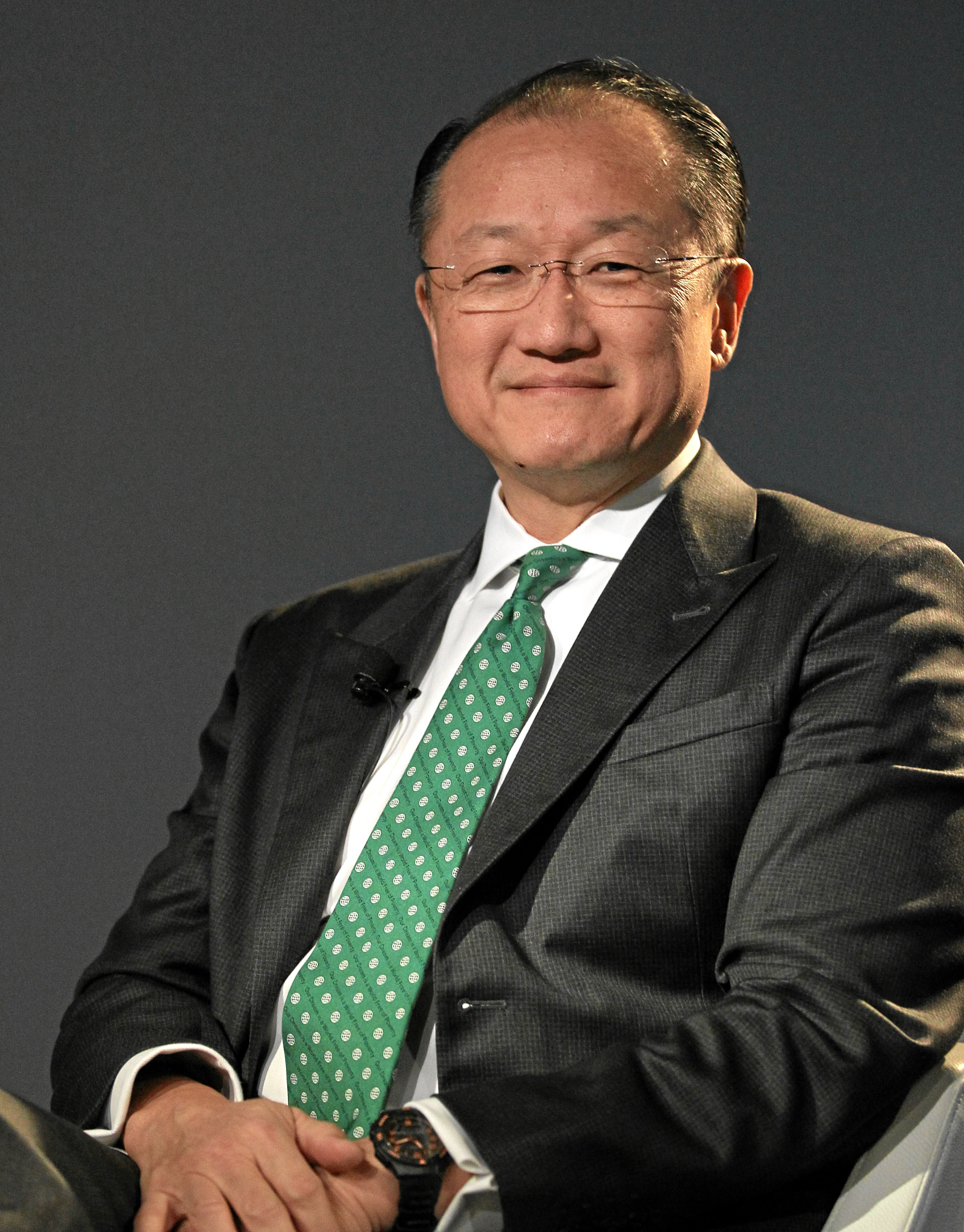 DAVOS/SWITZERLAND, 26JAN13 - Jim Yong Kim, President, The World Bank, Washington DC is seen during the Session 'An insight, an idea with Jim Yong Kim' at the Annual Meeting 2013 of the World Economic Forum in Davos, Switzerland, January 26, 2013.. . Copyright by World Economic Forum. . Moritz Hager